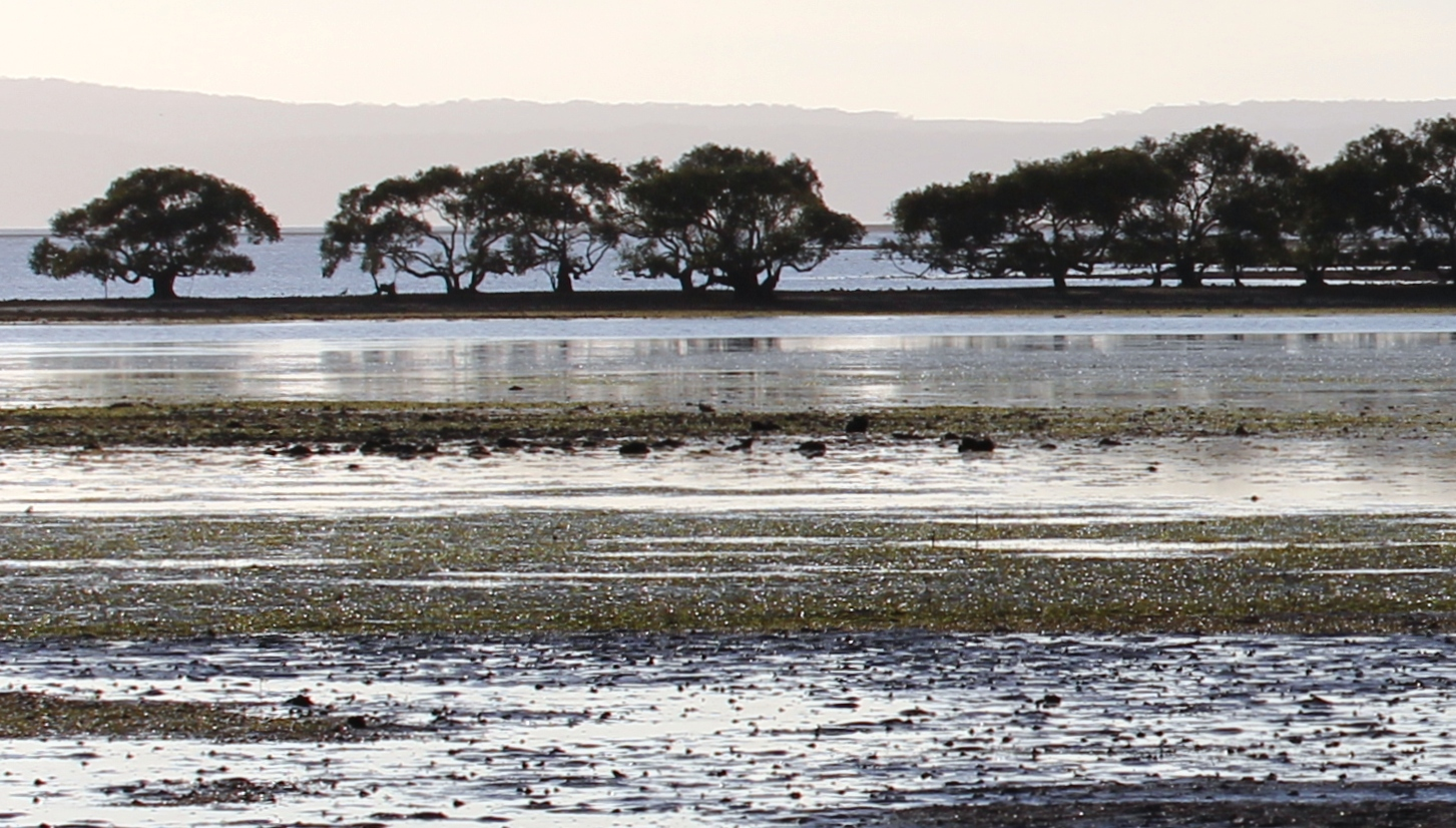 Cassim Island at Sunrise viewed from G.J. Walter Park, Cleveland, Queensland